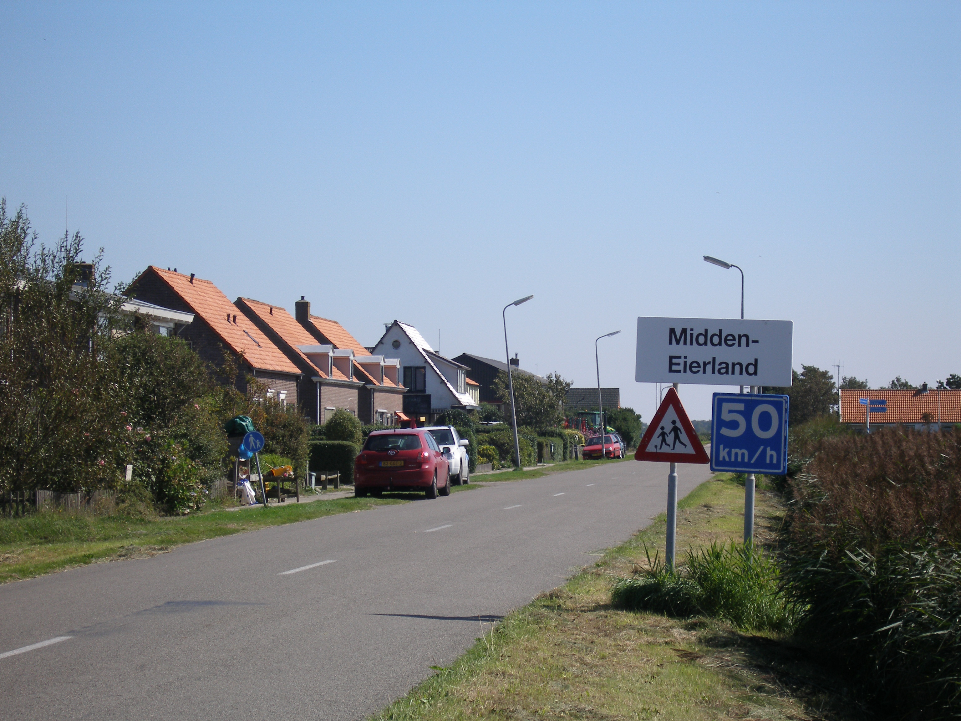 Midden-Eierland, Texel, Netherlands